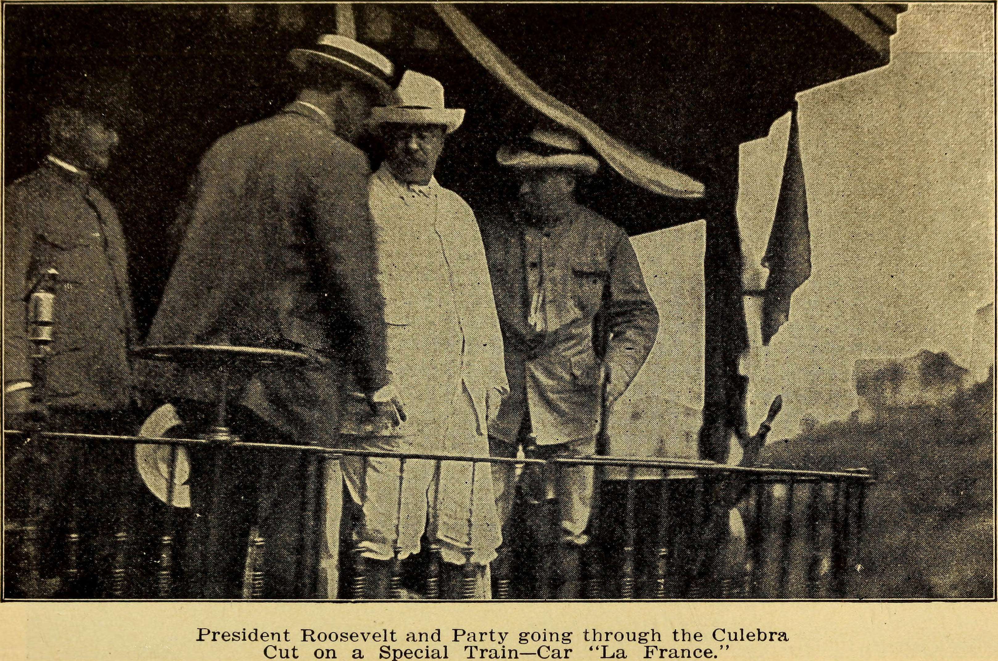 President Roosevelt and Party going through the Culebra Cut on a Special Train-Car "La France" Title: Panama pictures : nature and life in the land of the great canal Year: 1907 (1900s) Authors: Delevante, Michael Subjects: Publisher: New York (N.Y.) : Alden Brothers Text Appearing Before Image: where he had seen overone of the steam-shovels in operation, a ban-ner which bore the legend: 66 PANAMA PICTURES. WE WILL HELP YOU TO CUT IT! Then, as his special train moved furtheron the way, he said, a fellow hailed out tohim: WEEE GOING TO PUT ITTHROUGH! Both of which, the President explainedto us, had pleased him immensely, because,he remarked, he admired the spirit thatactuated the sentiment of the two. Culebra is the highest point, and thelargest Station, along the line of the RailRoad. The American settlement of thisimportant district is reached by a continu-ous winding pathway, that leads up to theAdministration and other buildings, situ-ated upon the summit of the hill, fromwhich point you get a most wonderful birdseye view of the surrounding country andthe Cut, both of which teem with the lifeand activity commensurate with the im-mensity of the Cause. Culebra being the headquarters of theChief Engineer, and also his seat of resi-dence, is rendered, ofiflcially and socially. Text Appearing After Image: '